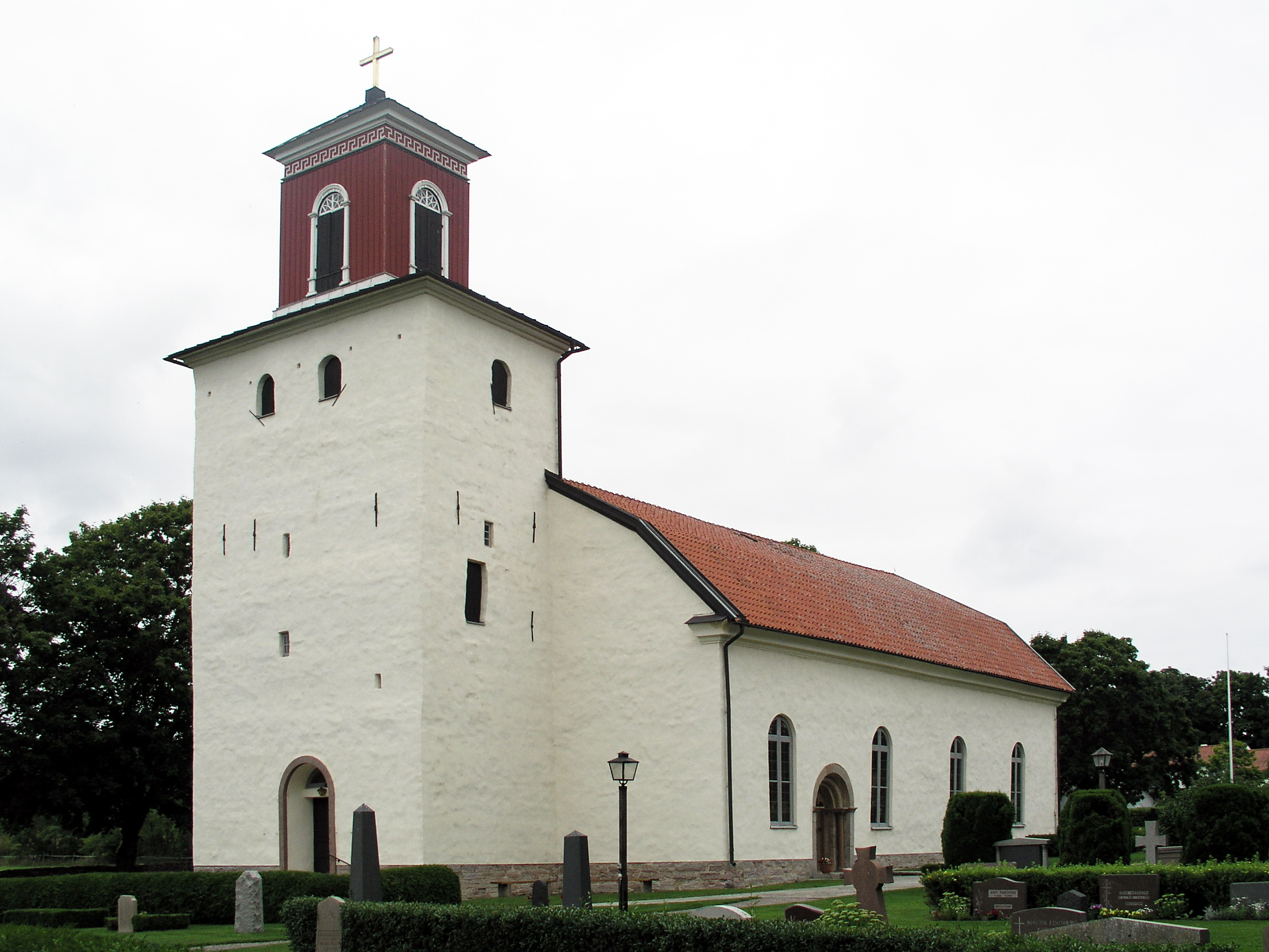 Glömminge kyrka / church is situated on the isle of Öland, in Mörbylånga kommun. The photo was taken by Håkan Svensson (Xauxa) the 3rd of August 2005.